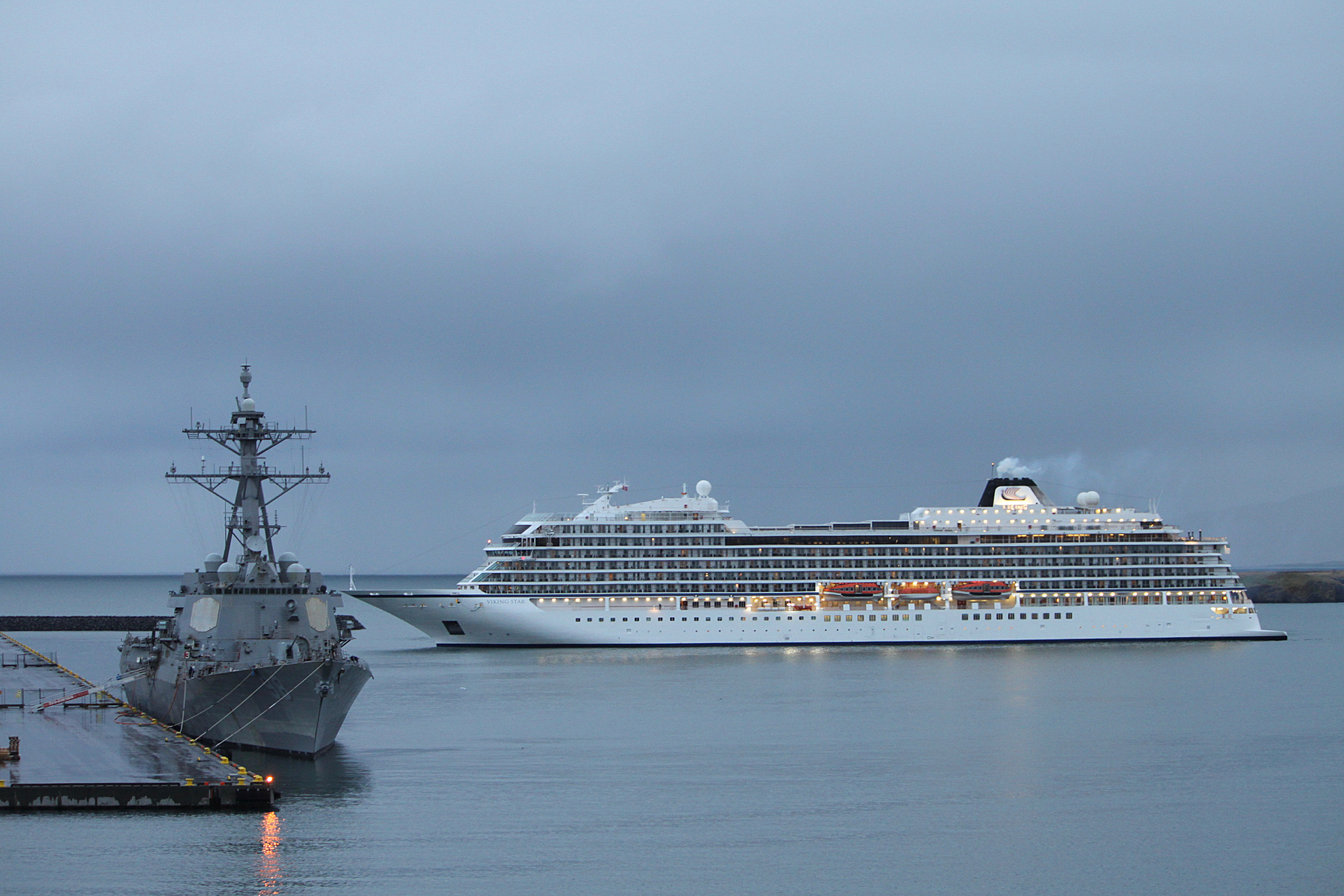 MS "Viking Star" in the port of Reykjavík.